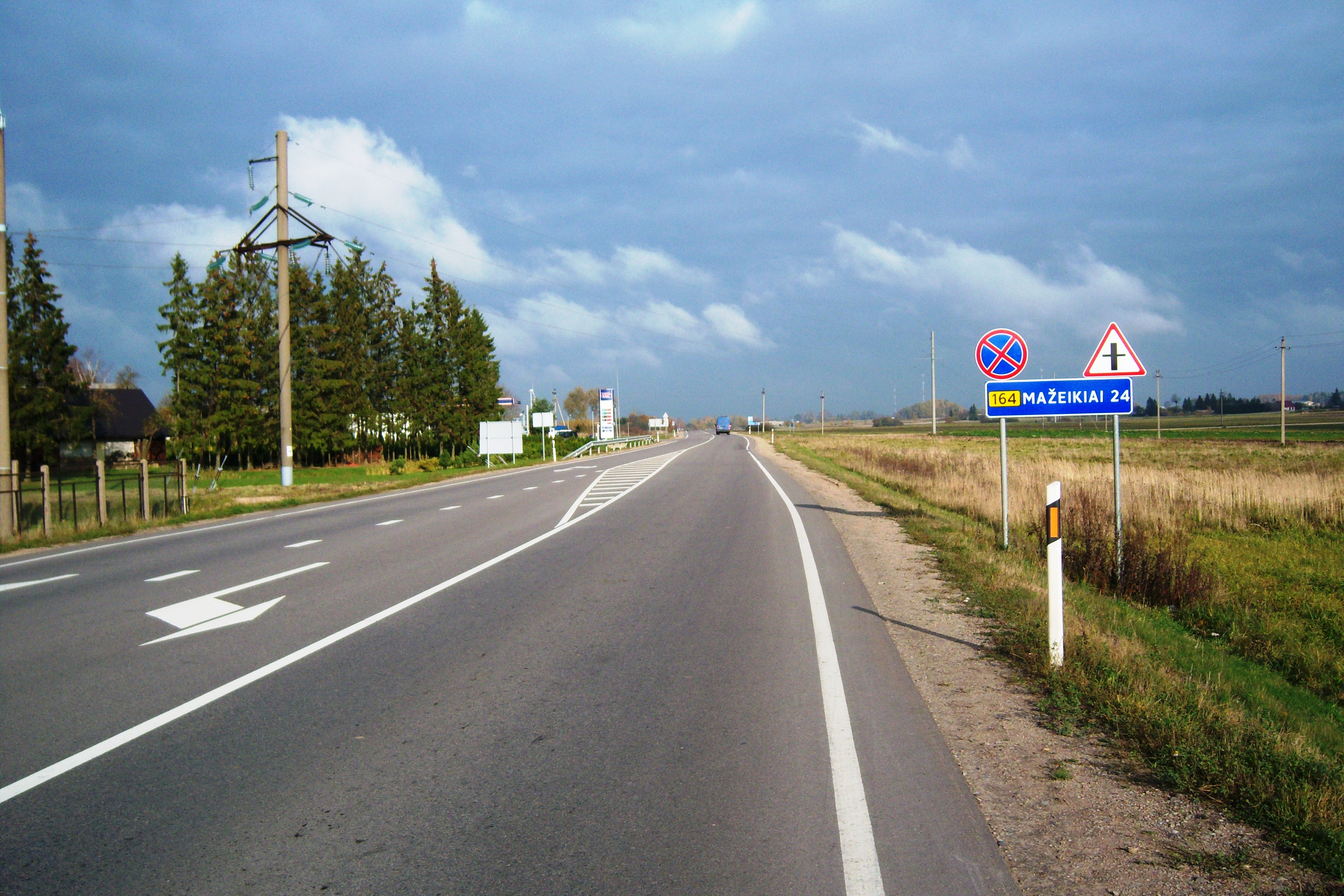 Road KK164 near Seda, Mažeikiai district, Lithuania